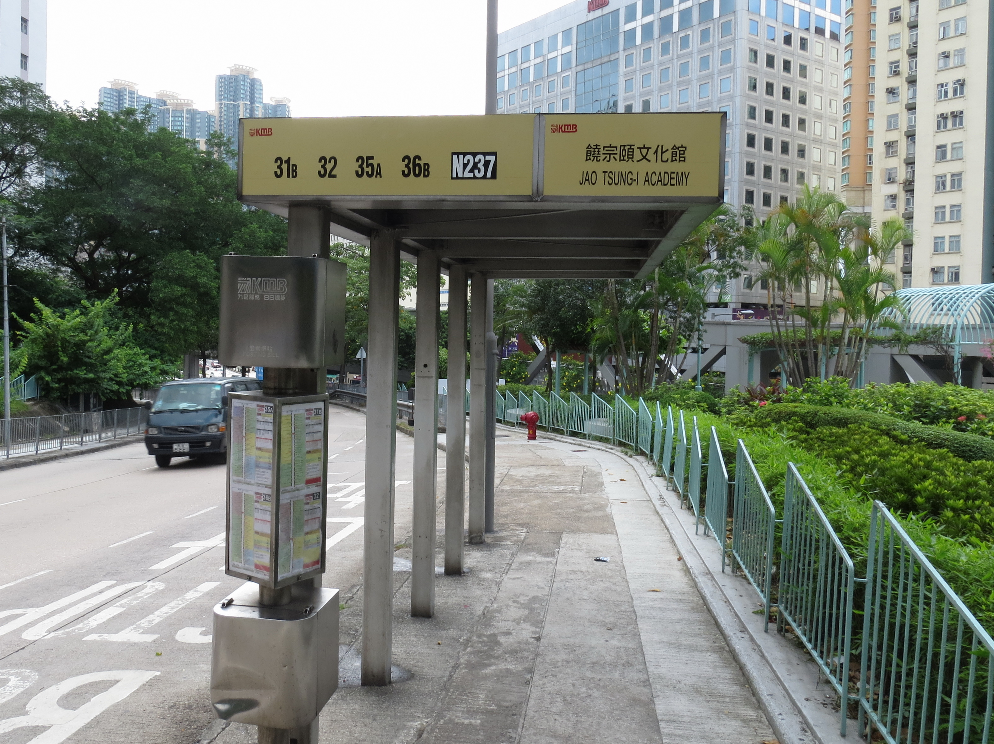 Bus stop, Jao Tsung-I Academy, Castle Peak Road, Lai Chi Kok, Hong Kong.